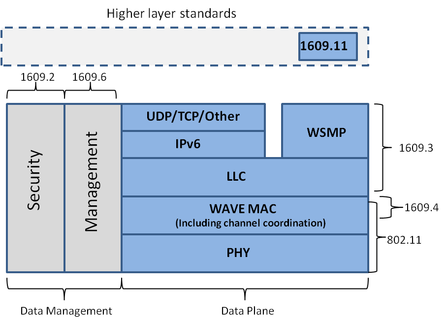 Pila WAVE